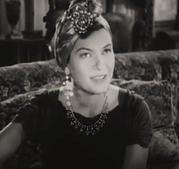 Jacqueline deWit in the film Fog Island (1945) - cropped screenshot